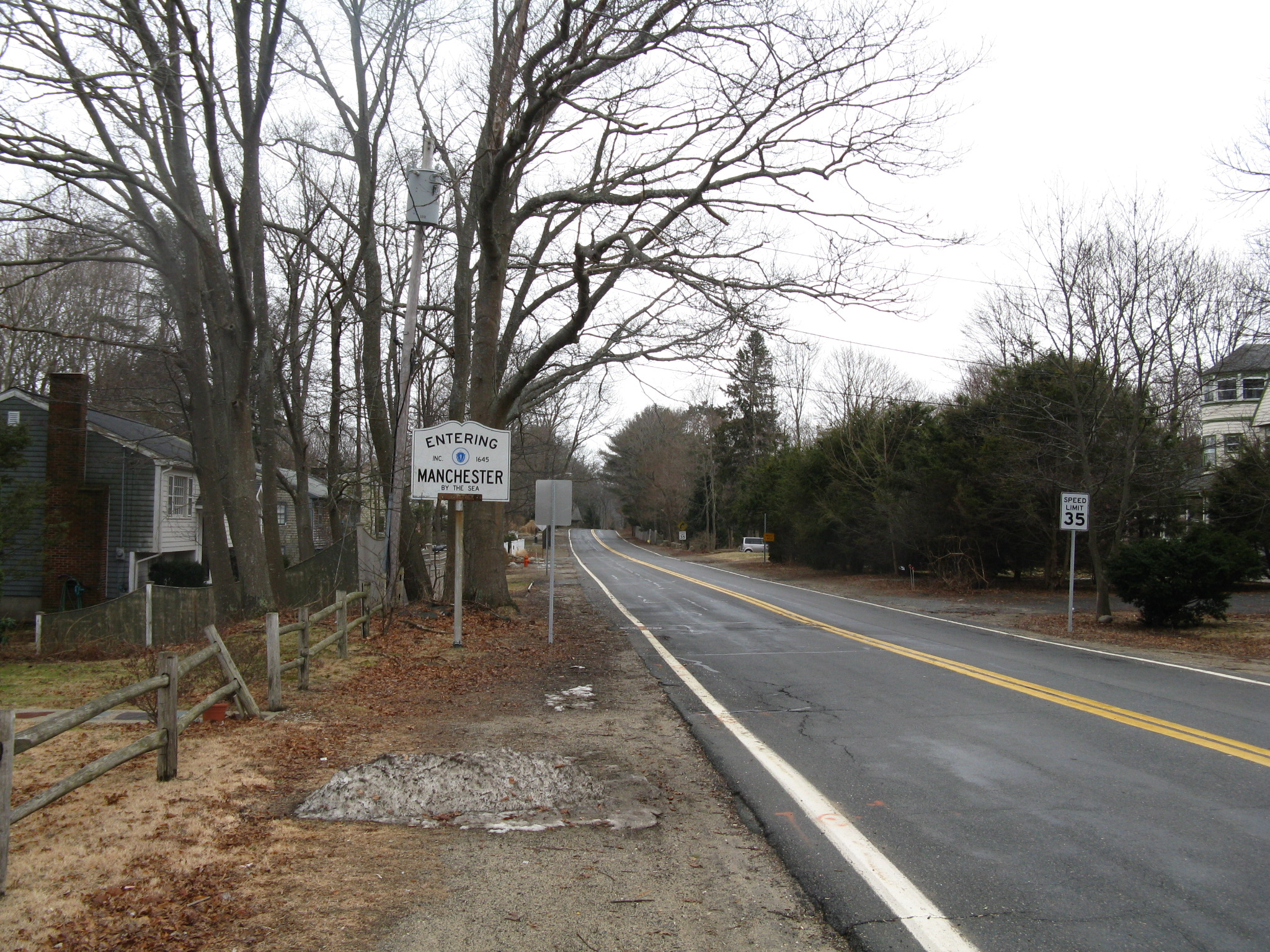 Massachusetts Route 127 southbound entering Manchester Massachusetts